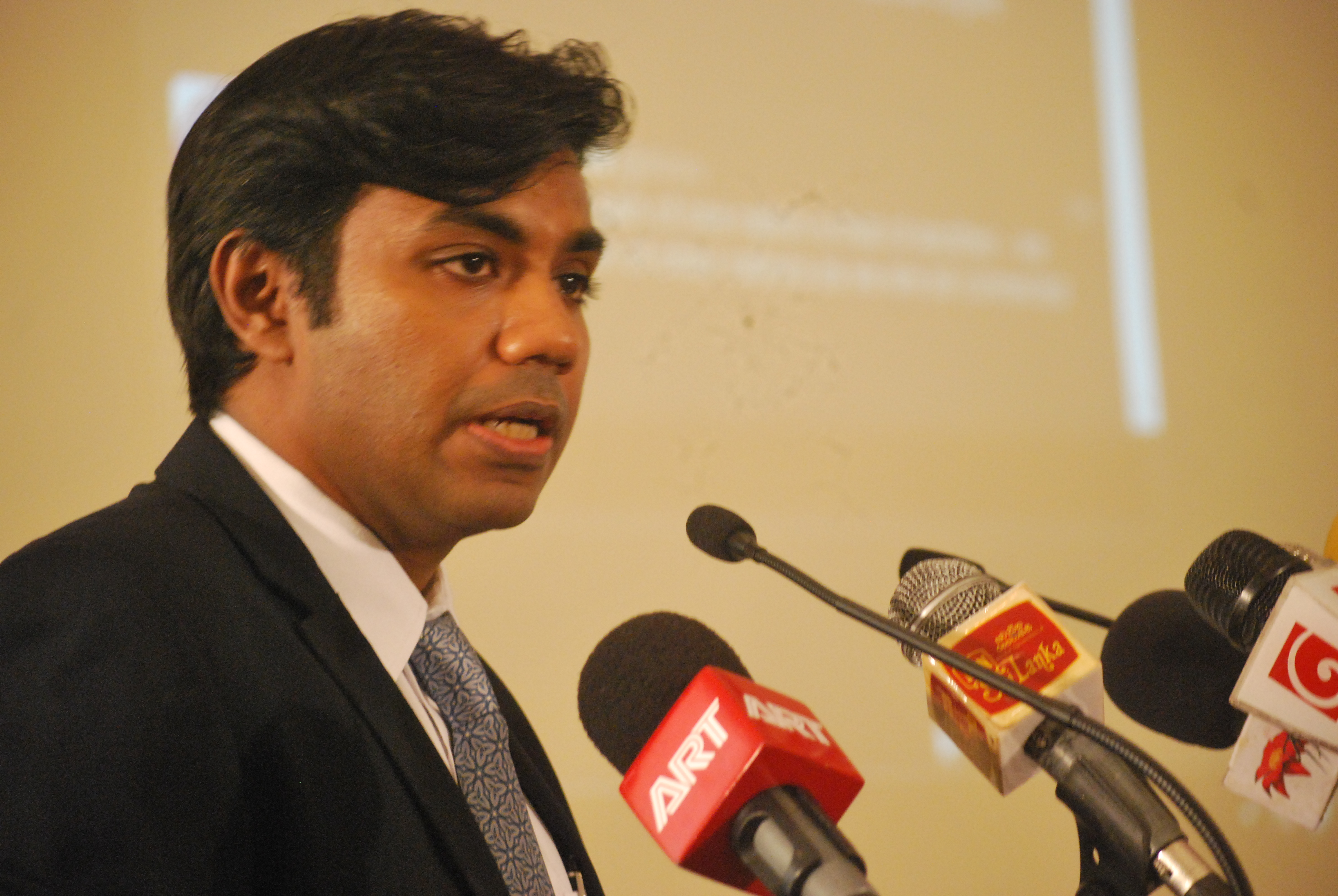 Dr. Ariyaratne welcomed by Mr. Asanga Abeyagoonesekera, the Executive Director of LKIIRSS.